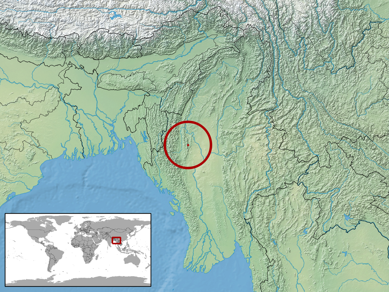 geographic distribution of Cyrtodactylus annandalei (Native: Myanmar)